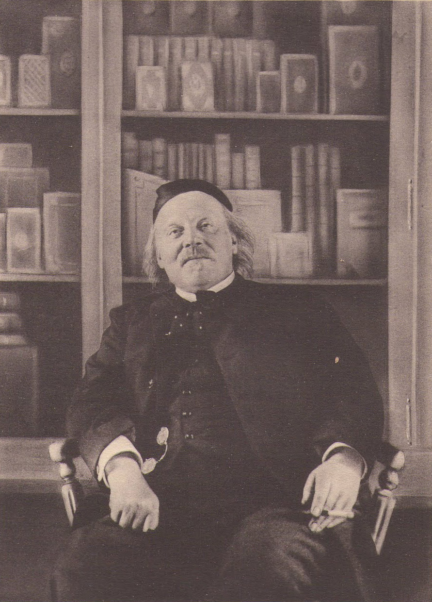 The French editor and publisher Honoré Champion (1846-1913)